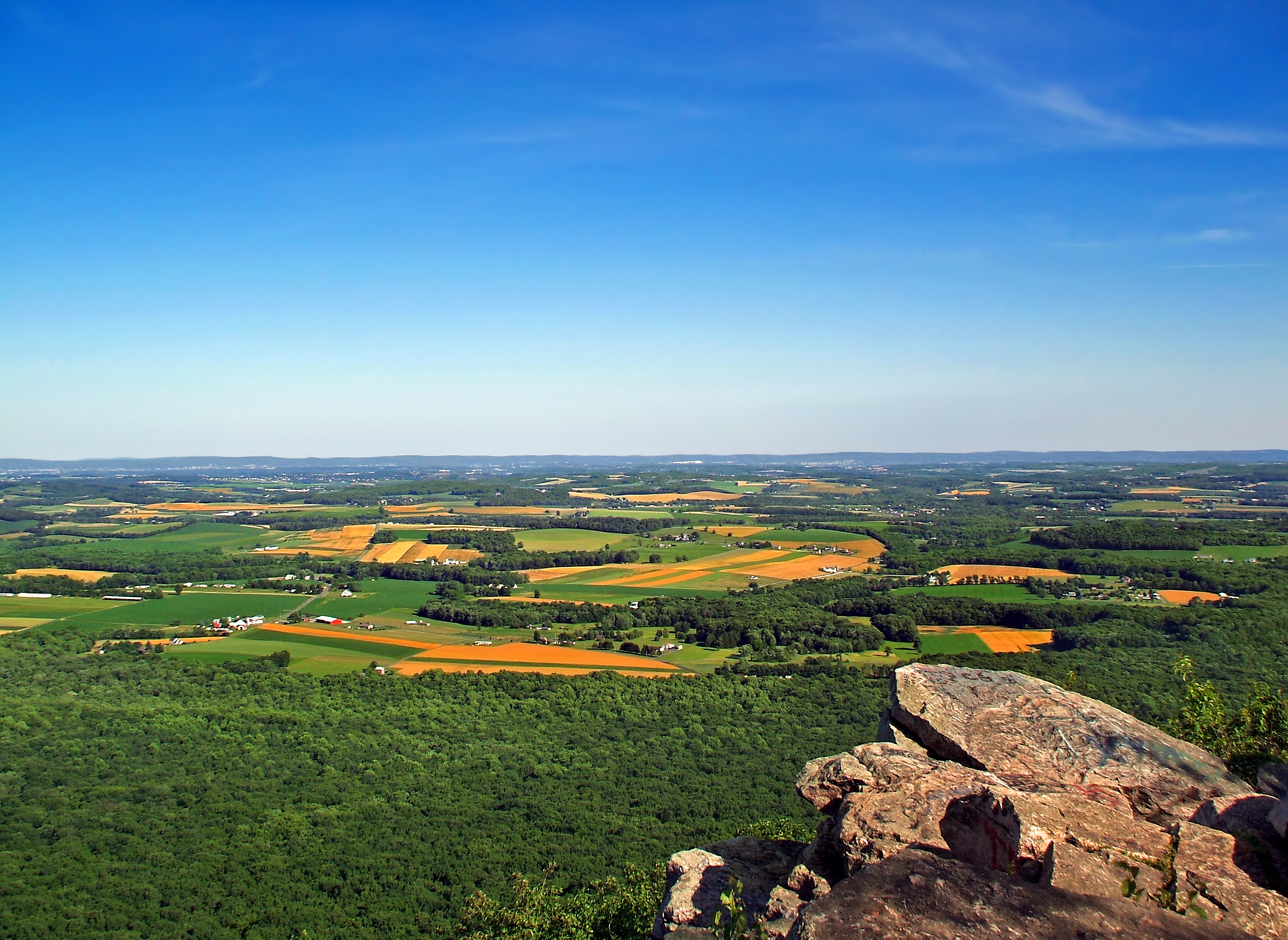 South-to-southeast view of the Lehigh Valley from the Appalachian Trail at Bake Oven Knob, Lehigh County.